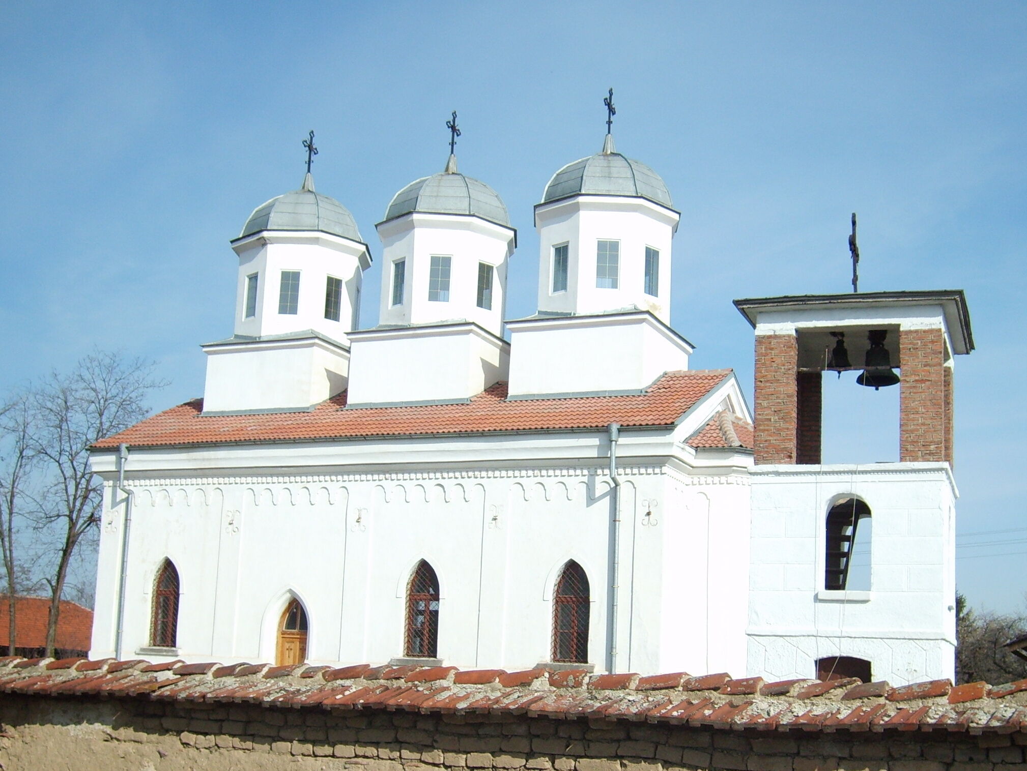 Church "Saint Archangel Michael" in village Lesnovo, Bulgaria